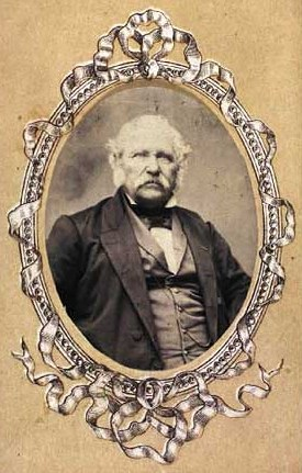 Gustav Grüner (1791-1869), Danish war commissioner and estate owner